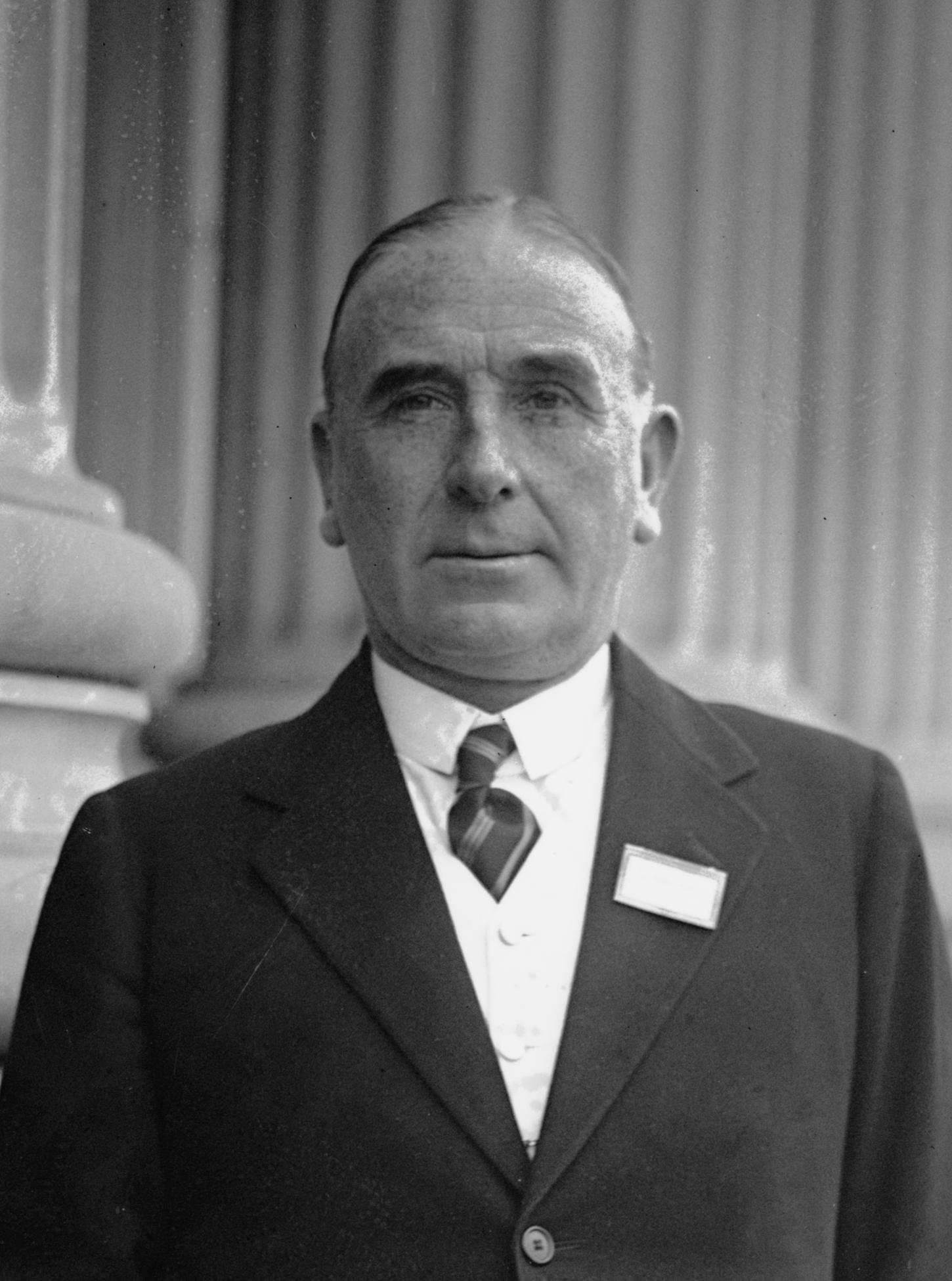 British Chancellor of the Exchequer, Sir Robert Horne